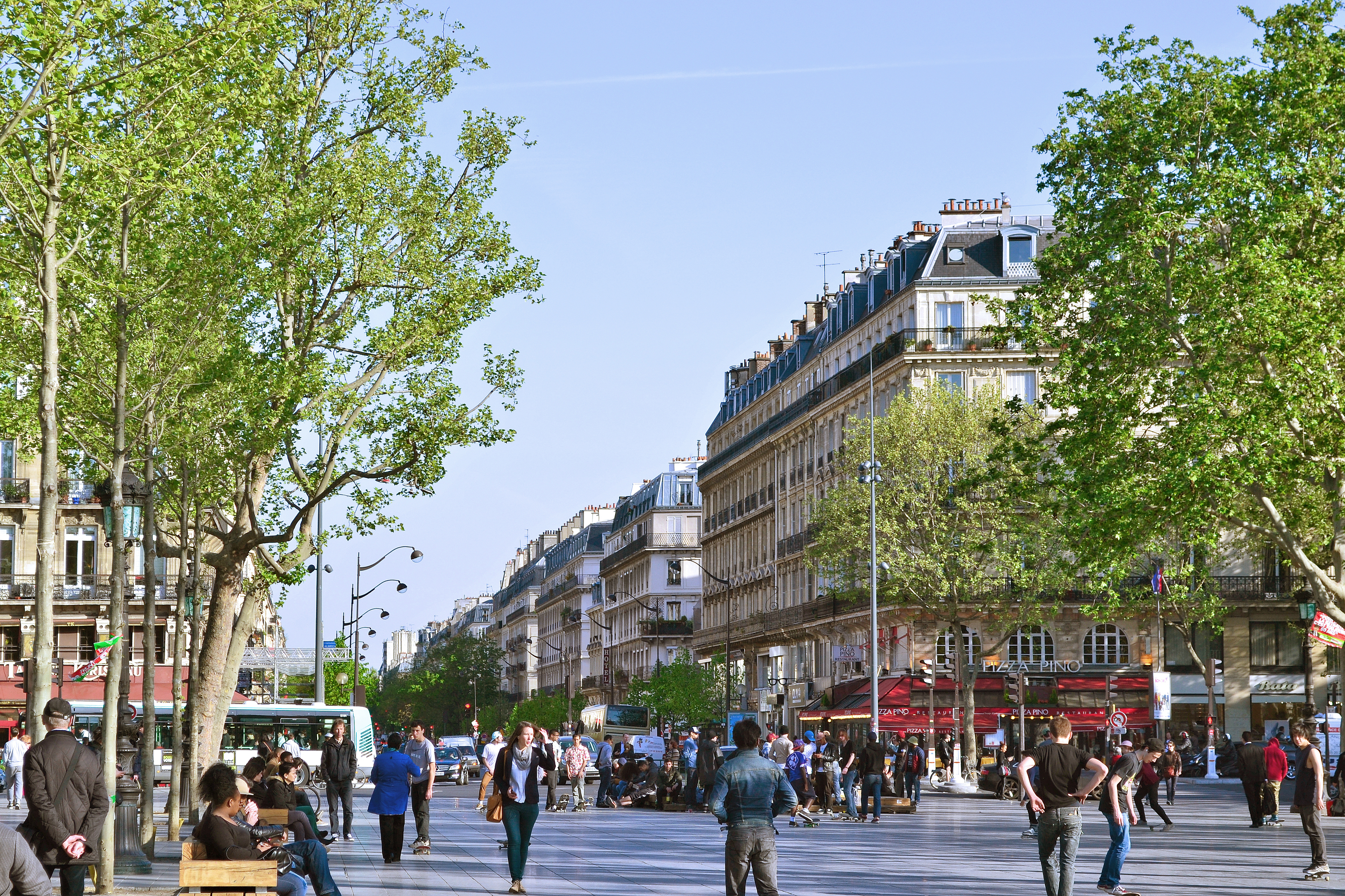 Boulevard Voltaire as seen from Place de la République, Paris.